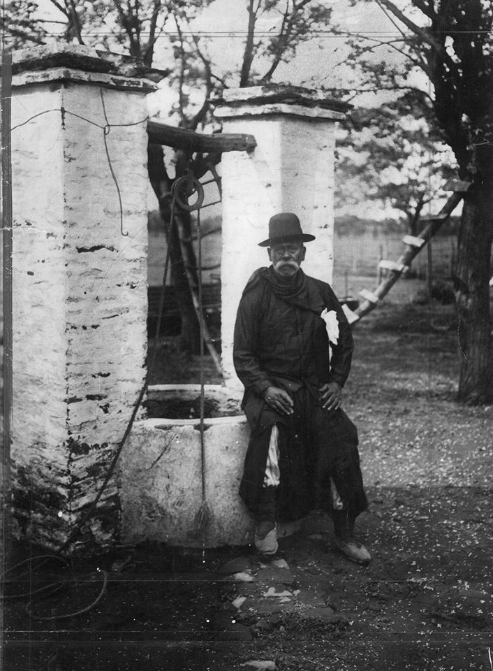 Argentine gaucho Segundo Ramírez, who inspired Ricardo Güiraldes to write his famous novel Don Segundo Sombra.